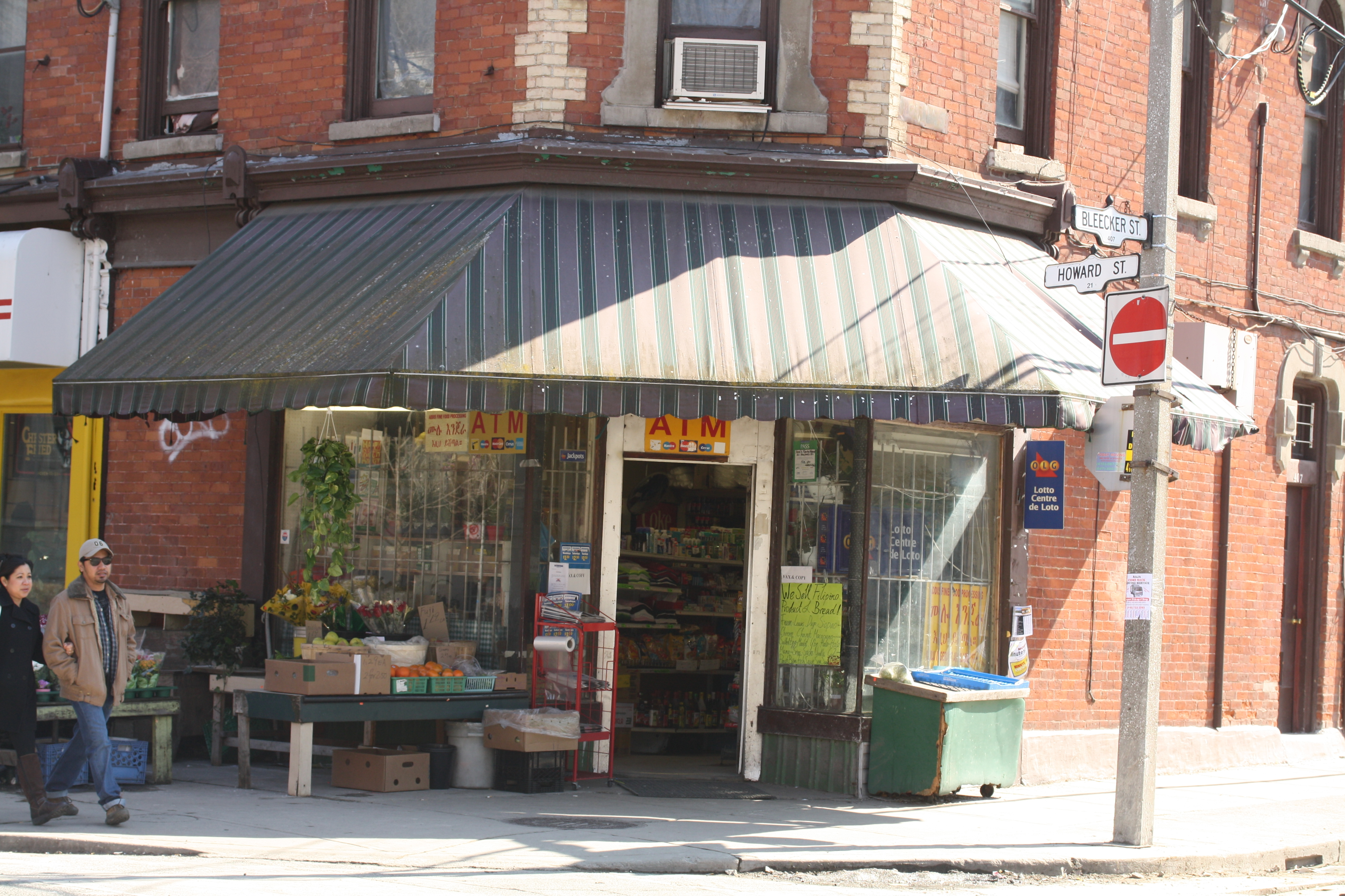 Corner store at the intersection of Howard and Bleeker Streets in Toronto's St. Jamestown neighbourhood.